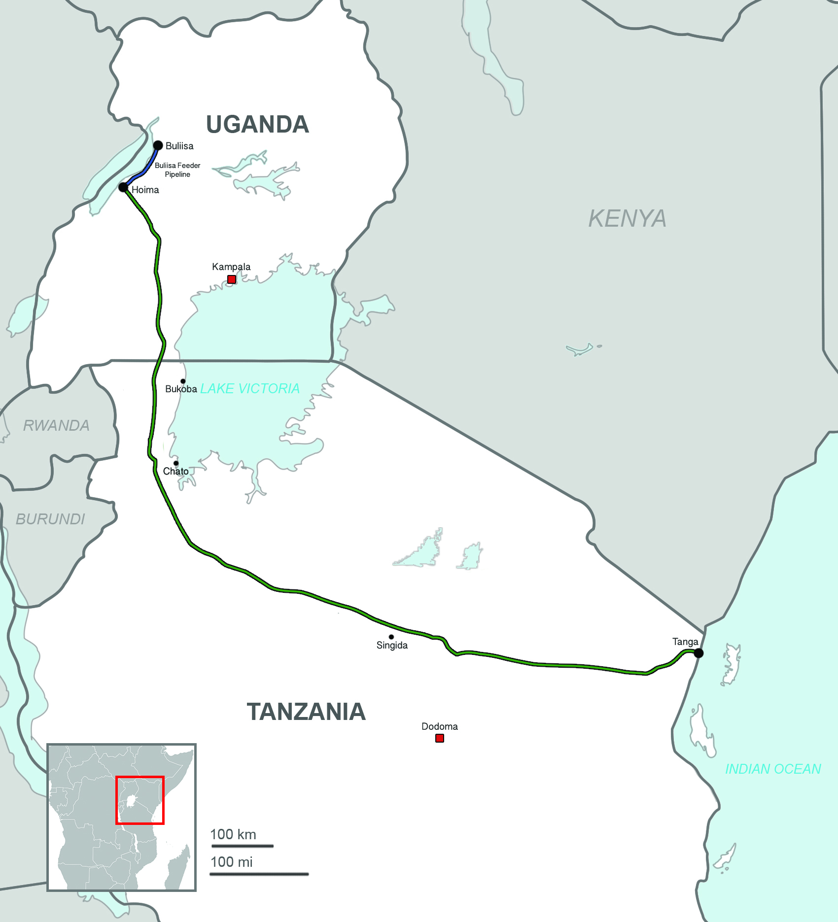 Proposed route of 1,410km Hoima-Tanga Oil Pipeline